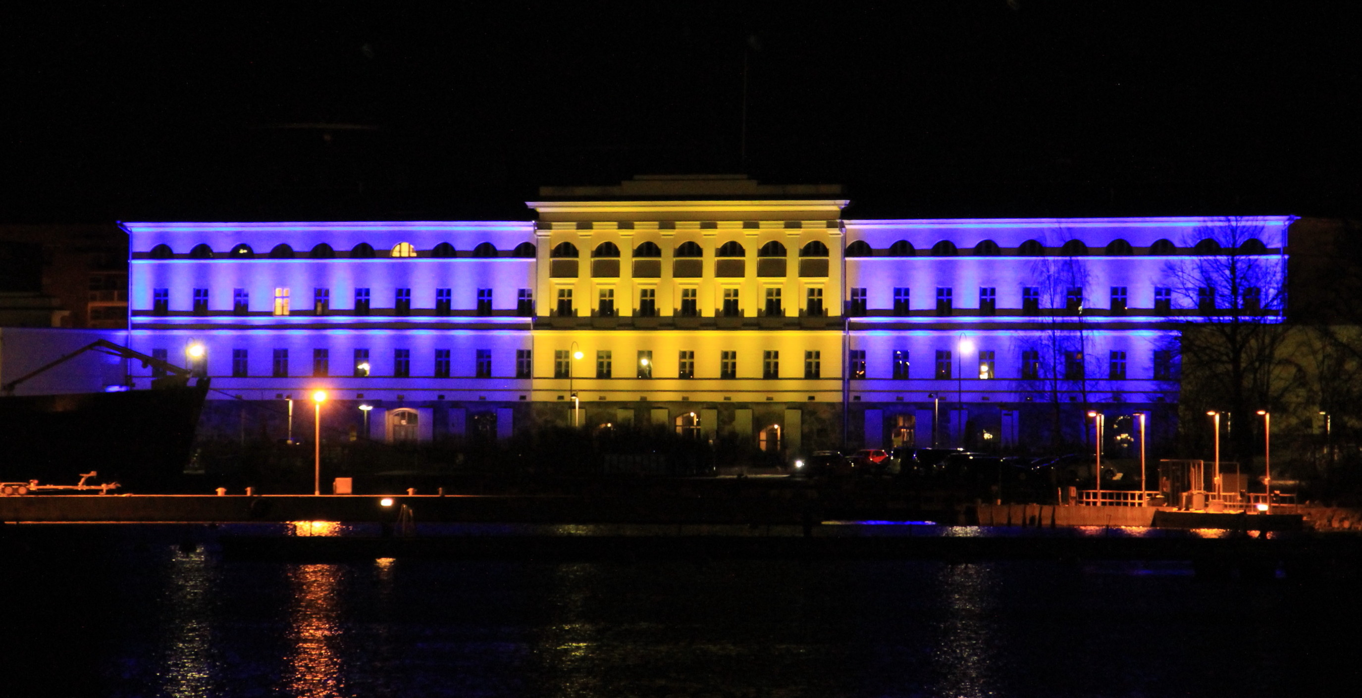 Seaside facade of Merikasarmi, main building of the Ministry for Foreign affairs of Finland illuminated blue and yellow (colors of the swedish flag) as a mark of respect for the victims of the recent terrorist attacks in Stockholm and earlier in St Petersburg and London. – Merikasarmi lies in Katajanokka neighbourhood, Helsinki, Finland.